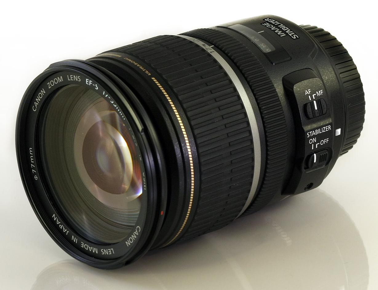 Canon EF-S17-55mm F2.8 IS USM